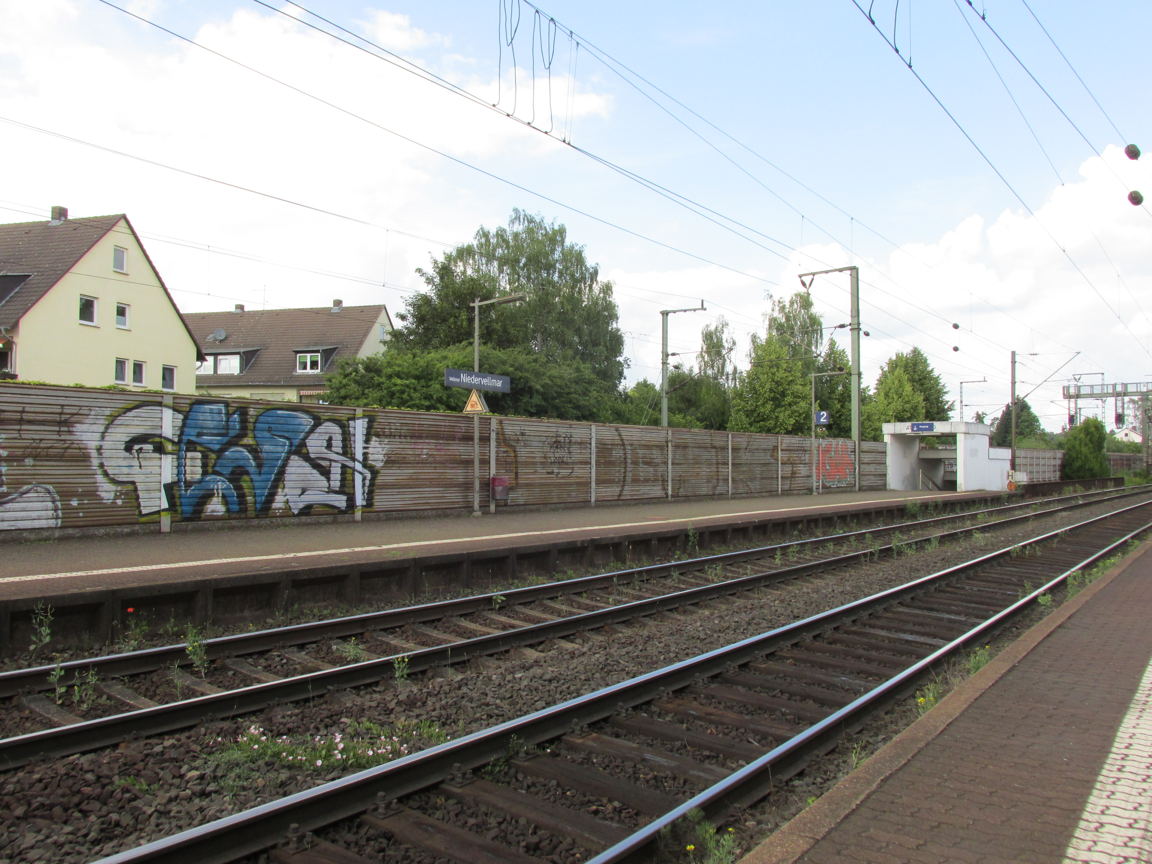 Vellmar-Niedervellmar train station, Vellmar, Germany check usage